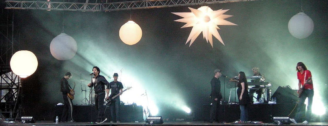 Adel Tawil with Ich + Ich in Salem 2008